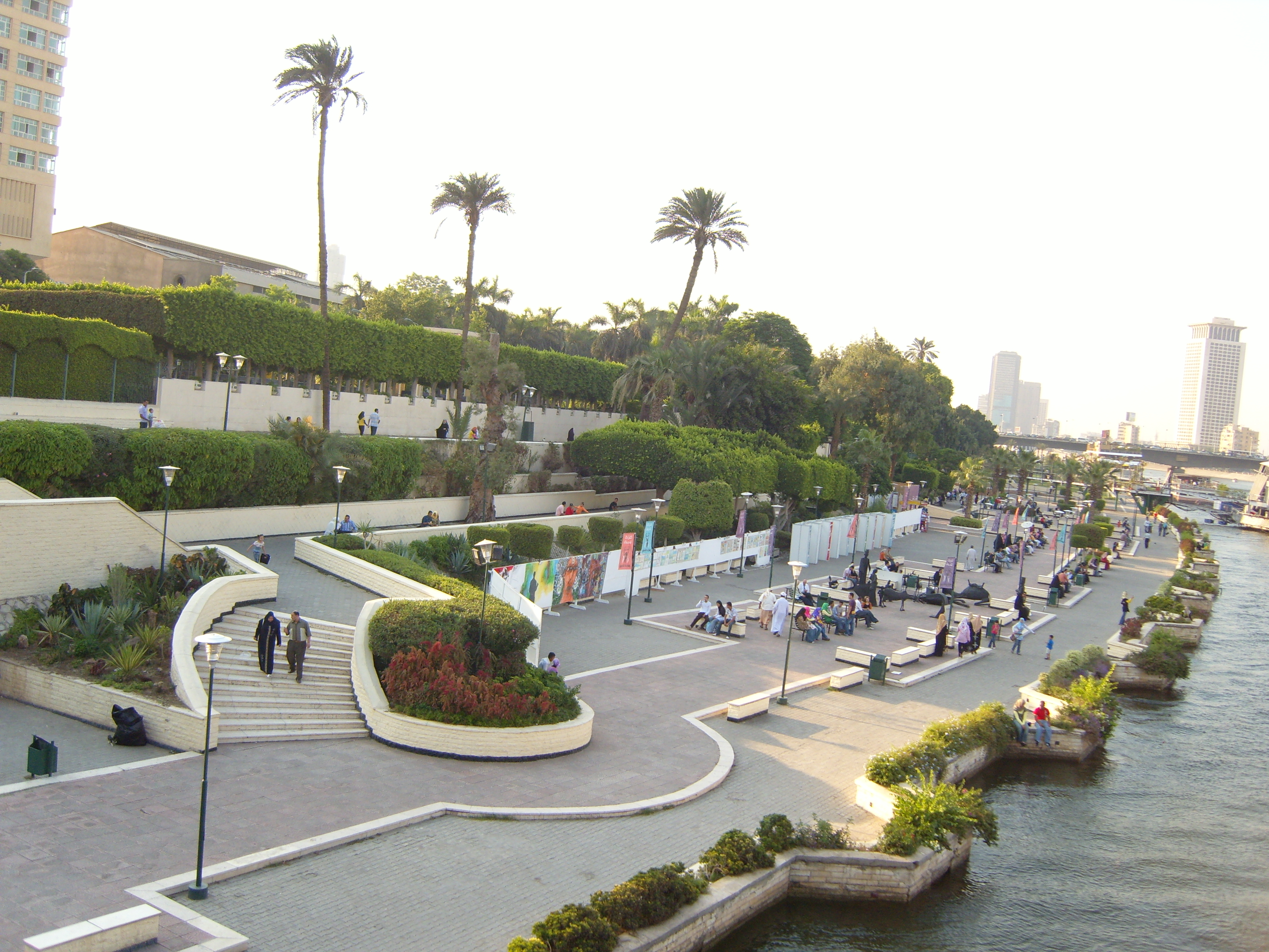 View on Gezira Island from the Qasr el-Nil (Tahrir) bridge (looking north west), Gezira Garden part of Andalus Park